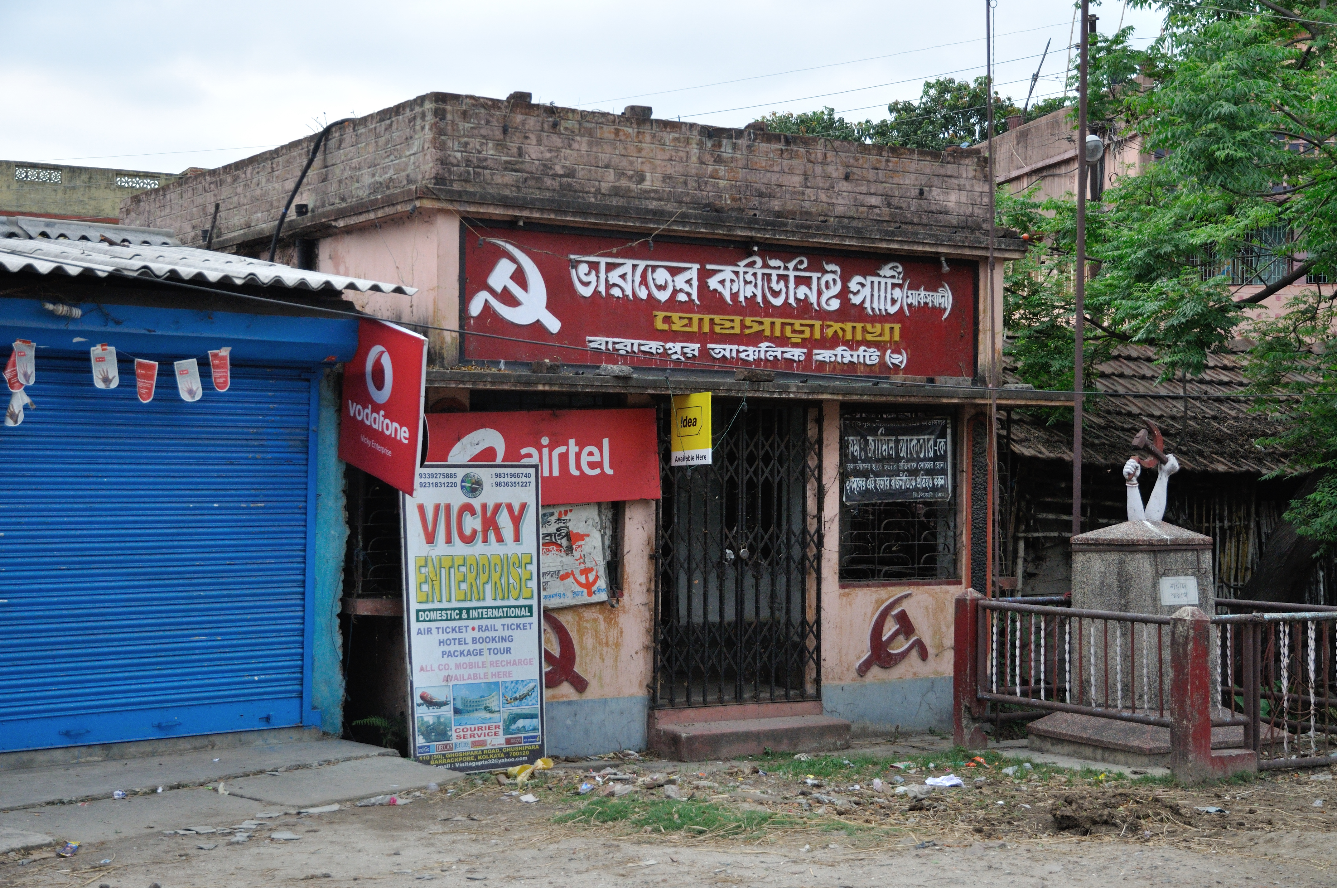 Photographed in greater Kolkata.